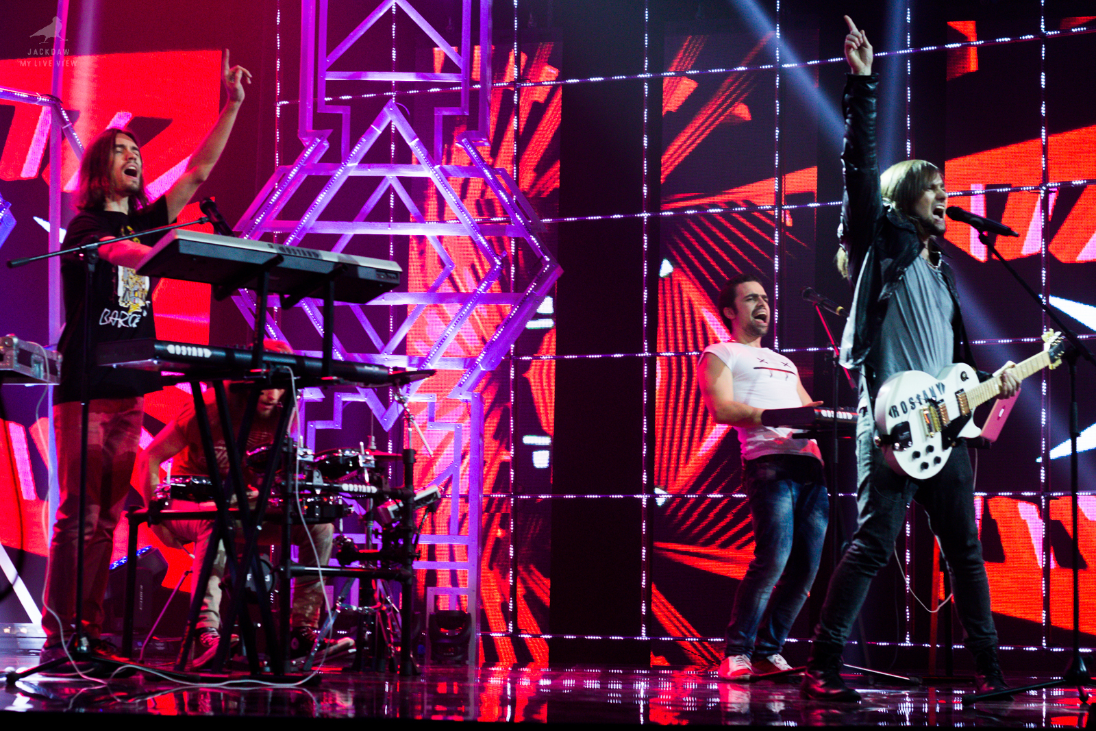 ROSTANY at Belarusian National Music Awards LIRA 2014 on ONT National Television